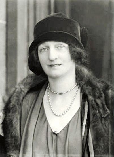 Muriel Paget, humanitarian relief worker, philanthropist from England (1876–1938)